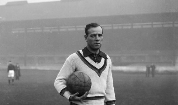 Spanish goalkeeper Ricardo Zamora, during his tenure on Club Espanyol, where he debuted in first division.